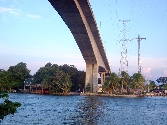 Bridge over Rio Dulce (Guatemala)